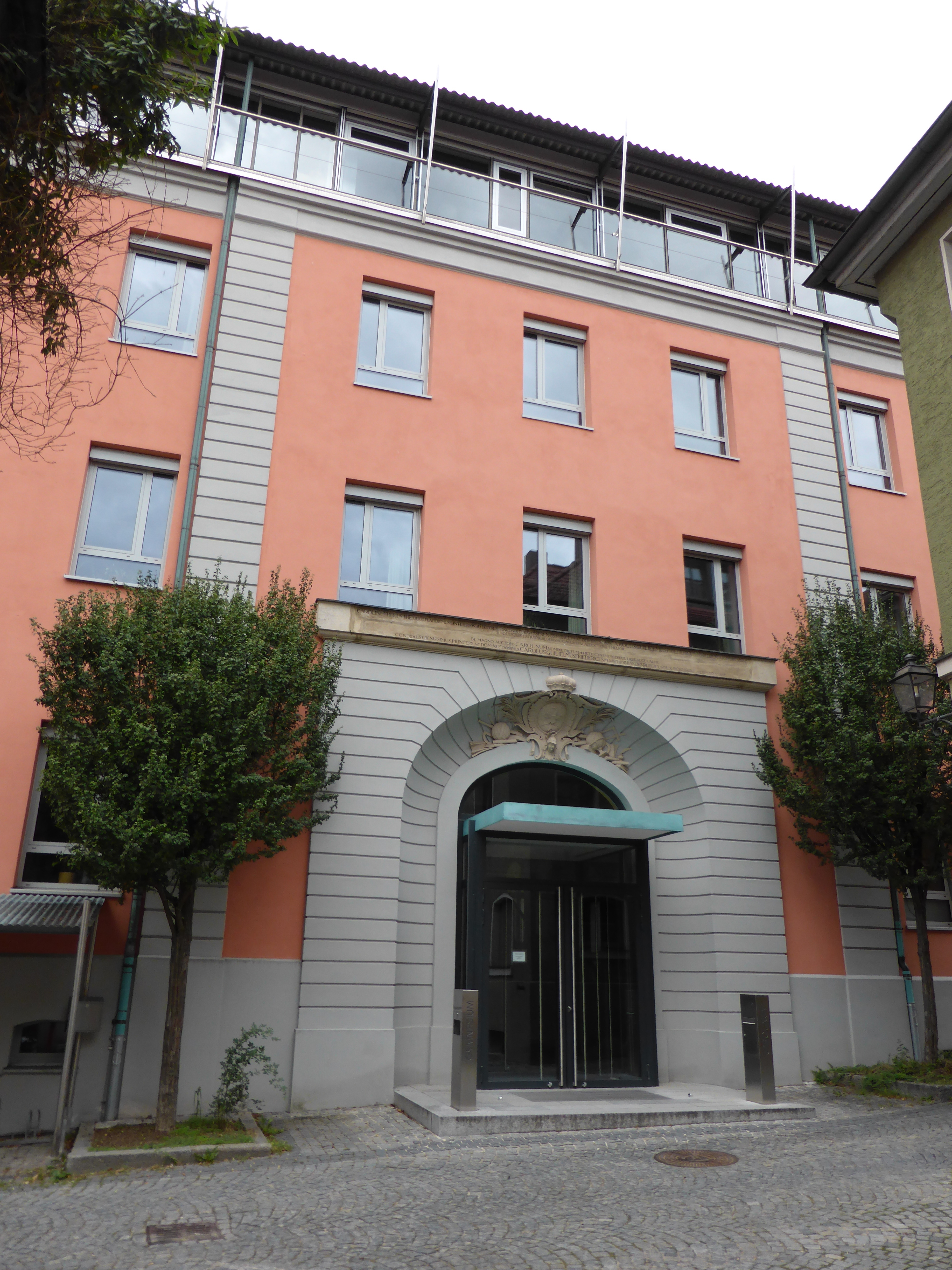 Germany, Bayern, Ansbach